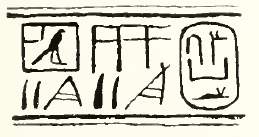 Drawing by Flinders Petrie (1853-1942) of a cylinder seal of Userkaf.